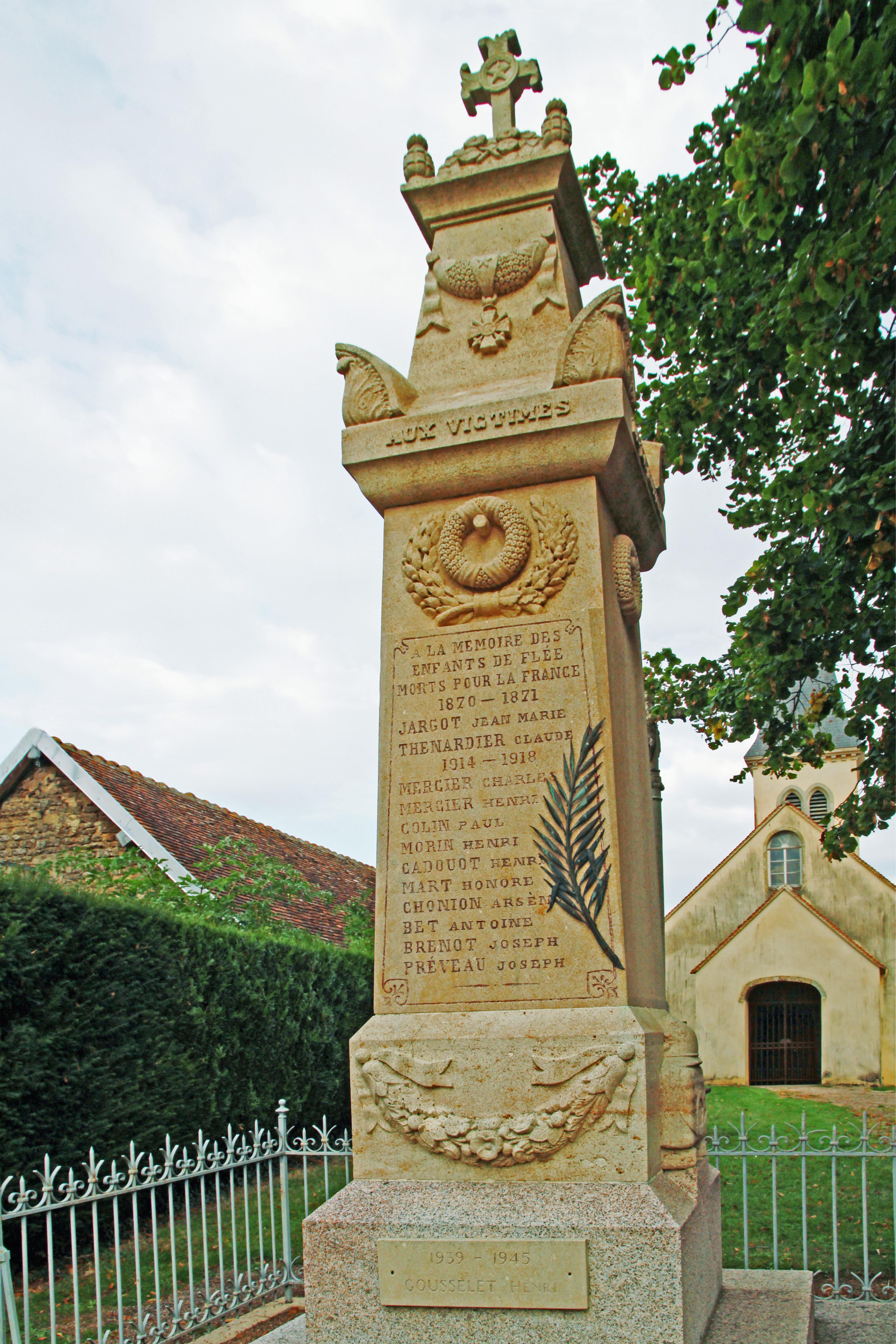 War memorial in Flée (Côte-d'Or)